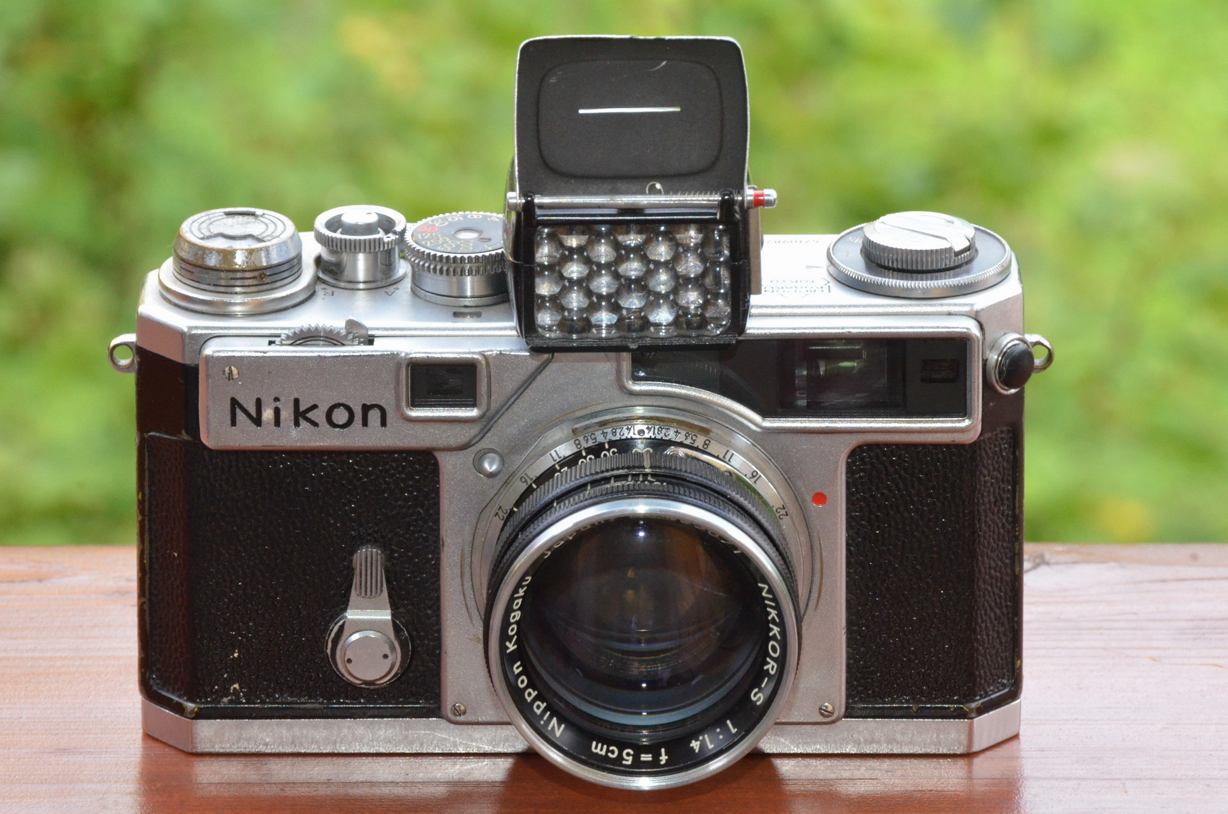 Nikon SP chrome with exposure meter and NIKKOR-S 1:1,4 f=5cm; own work